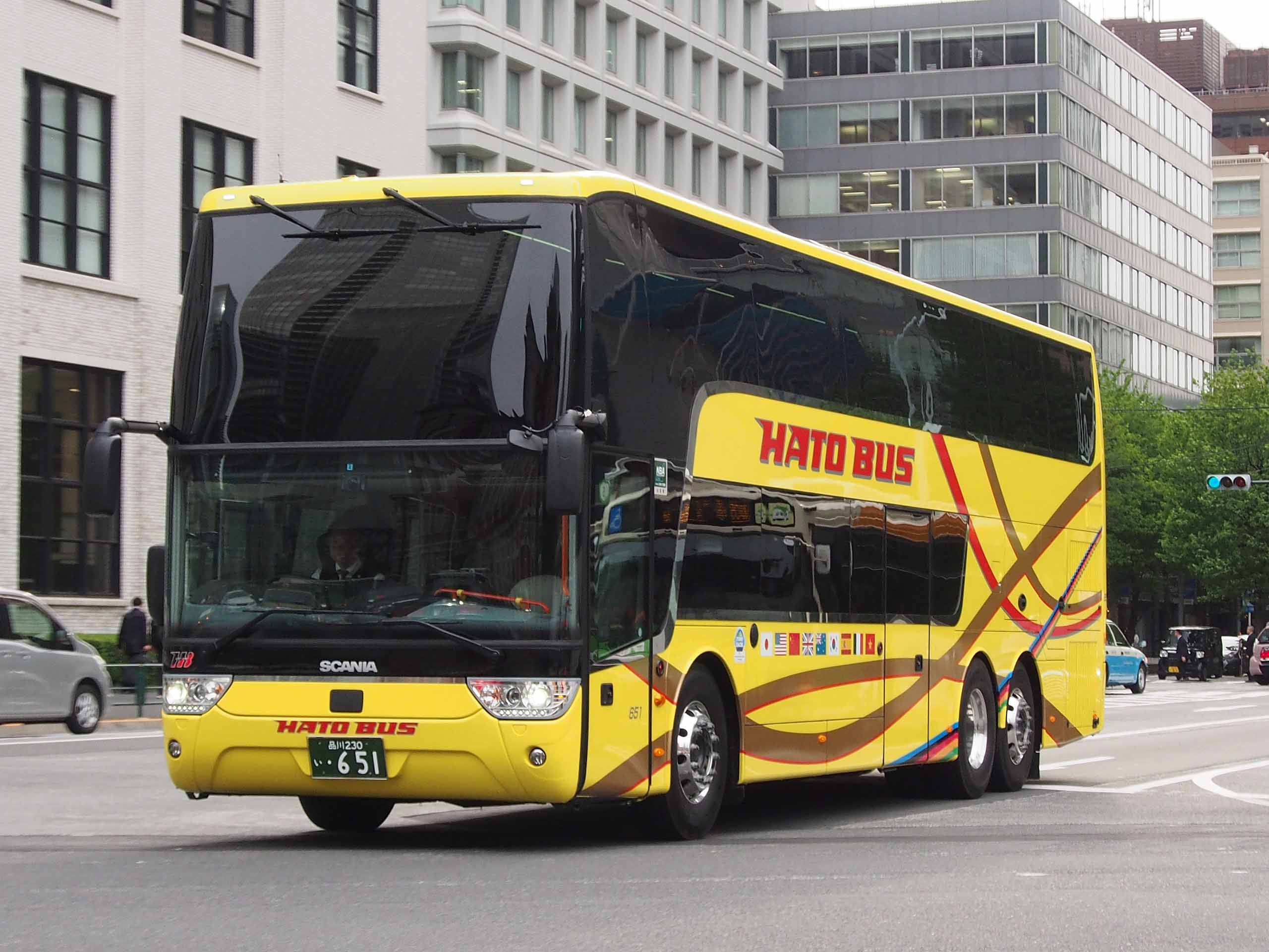 The second generation of Van Hool Astromega for Hato Bus, operated since April 25, 2016. Model: Van Hool TDX24 Astromega (Japan version) Engine: Scania DC13 115 License plate: TKS230 I0651 Place: Tokyo Station Marunouchi-south, Chiyoda Ward, Tokyo Japan